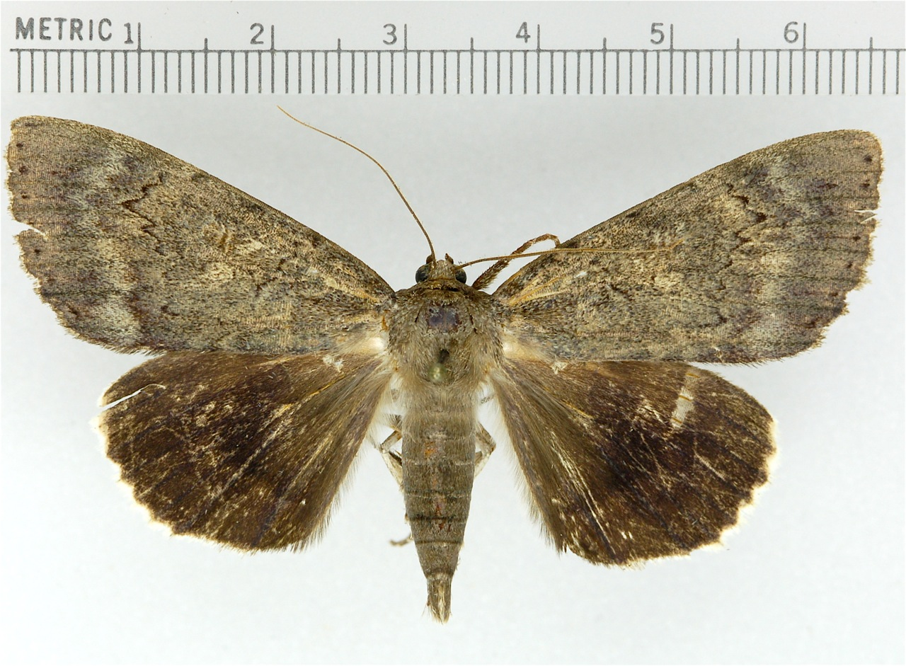 Adult.